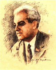 Portrait of Hero of Socialist Labour, scientist in sphere of theory of mechanisms Ivan Ivanovich Artobolevskiy.